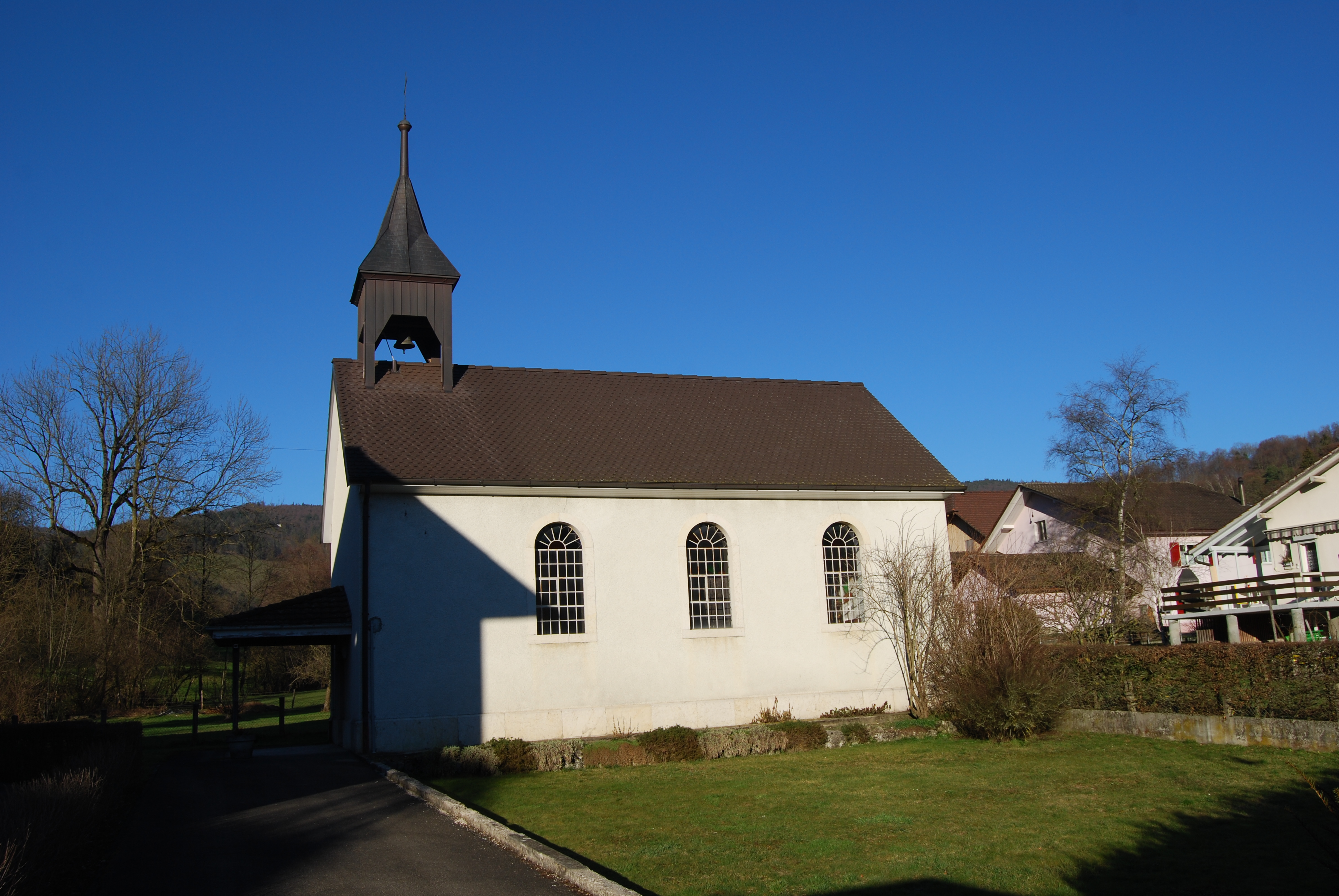 Chapel of Recolaine, municipality of Vicques, canton of Jura, Switzerland